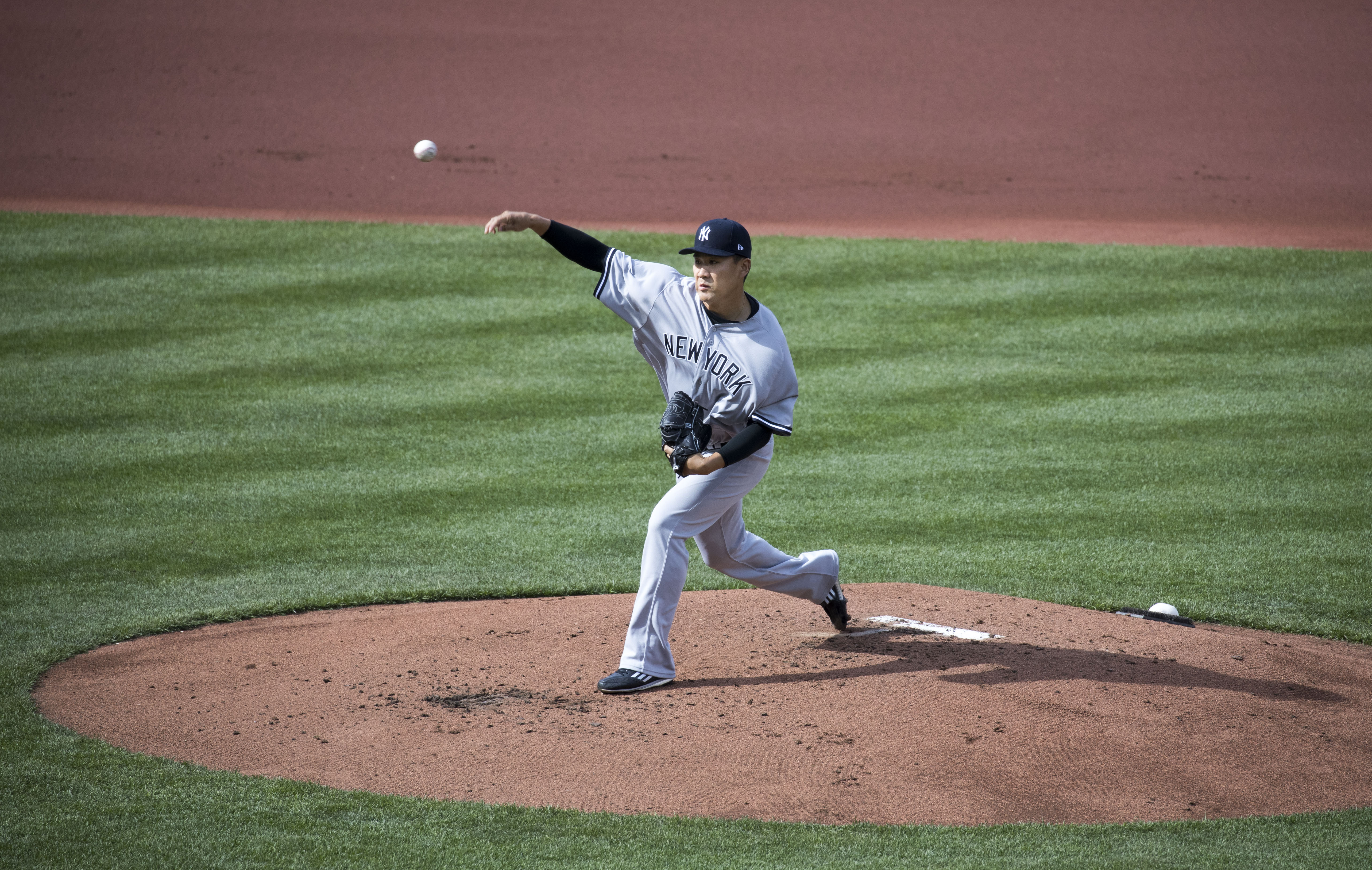 Masahiro Tanaka of the New York Yankees pitches in a game against the Baltimore Orioles at Oriole Park at Camden Yards on April 8, 2017 in Baltimore, Maryland.